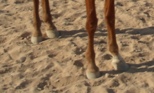 Hooves